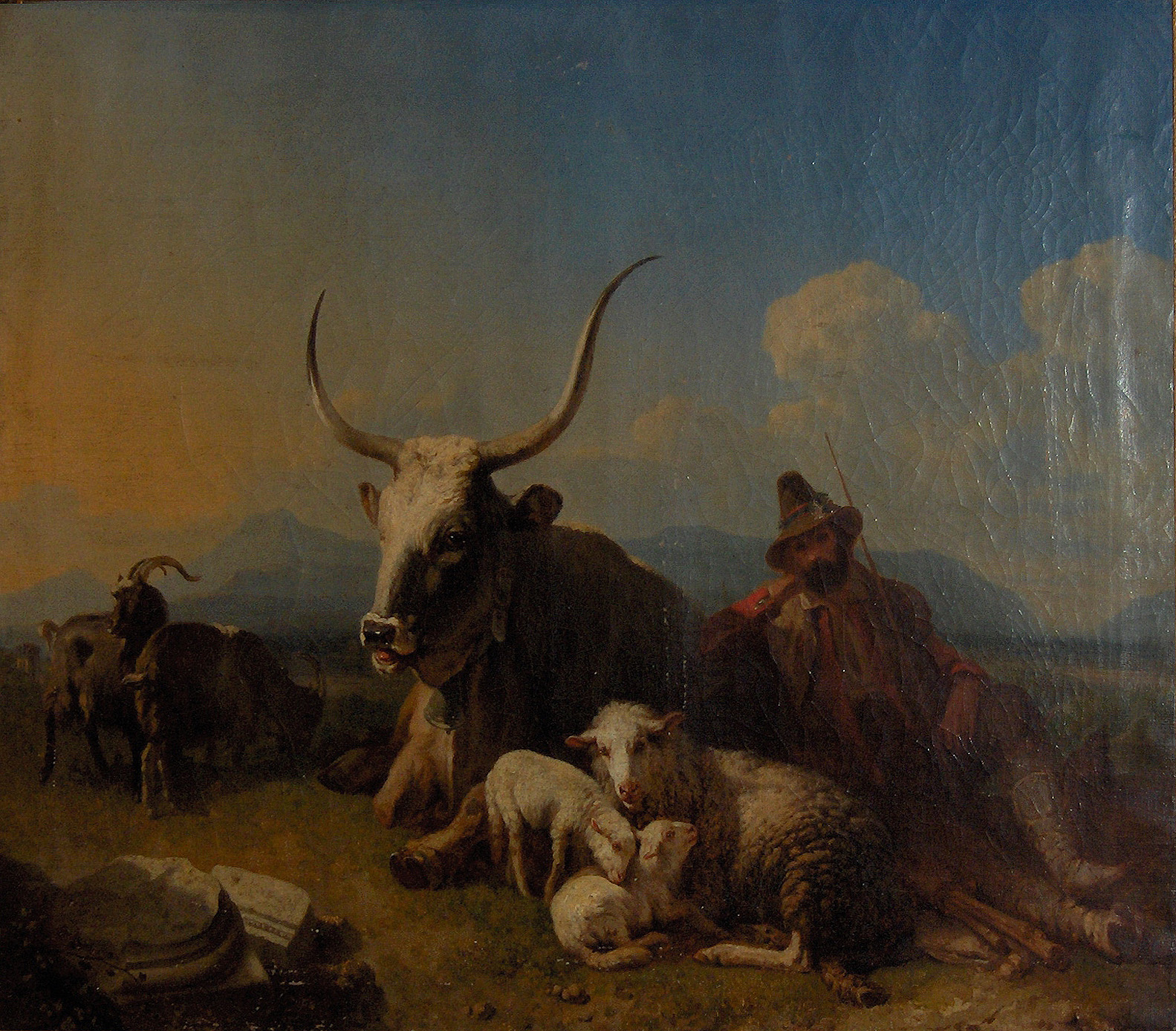 "Shepherd with animals in the countryside" painting attributed to Eugène Verboeckhoven (1798-1881) - private collection